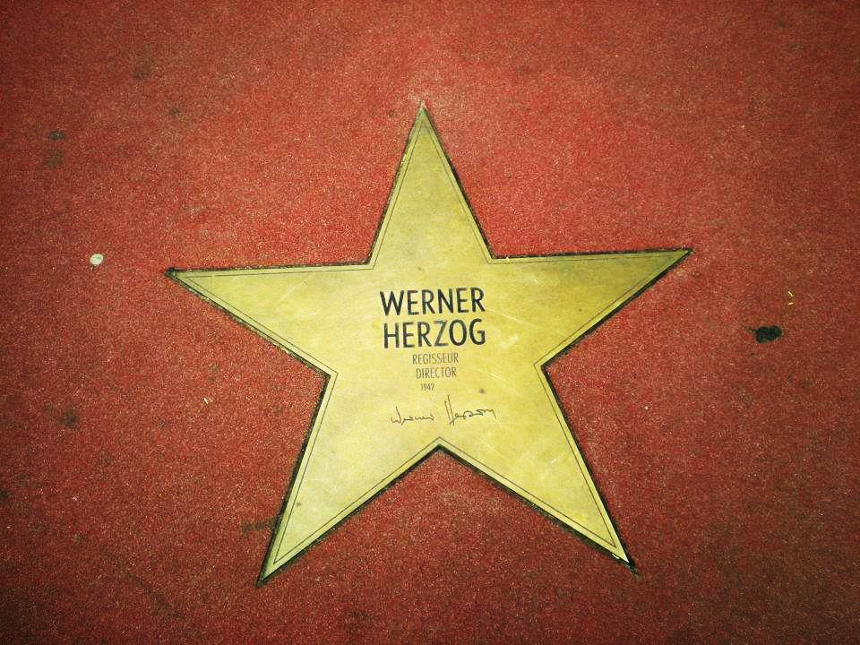 Werner Herzog's star in Boulevard der Stars in Berlin